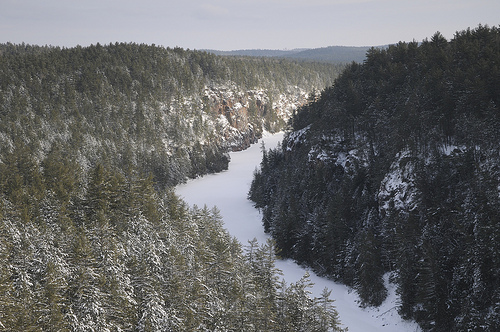 View of the Barron River, in Algonquin Provincial Park, looking downstream from the top of the Barron Canyon